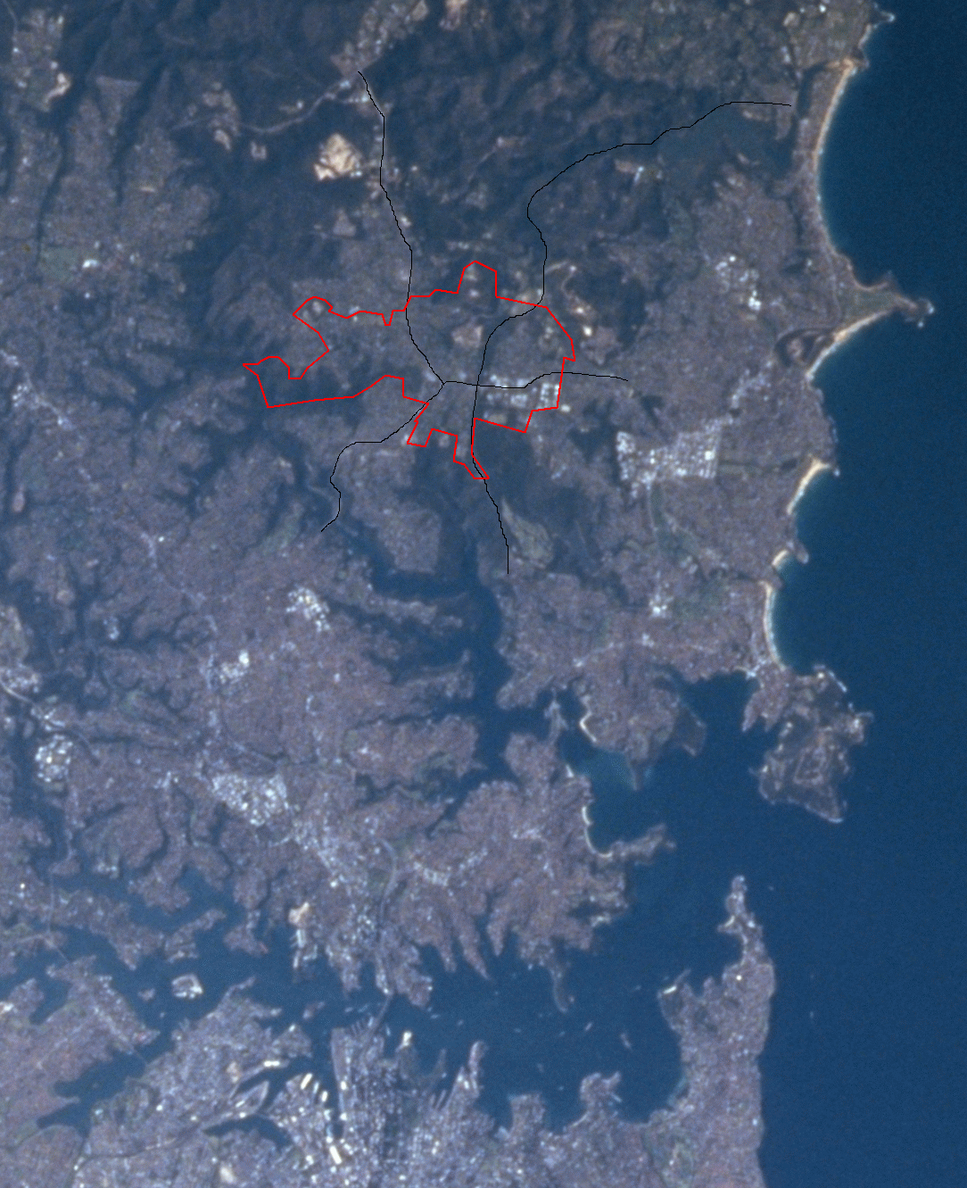 NASA satellite image of Sydney, Australia, that I cropped and modified to show borders of Frenchs Forest; Original NASA image number: STS079-834-6